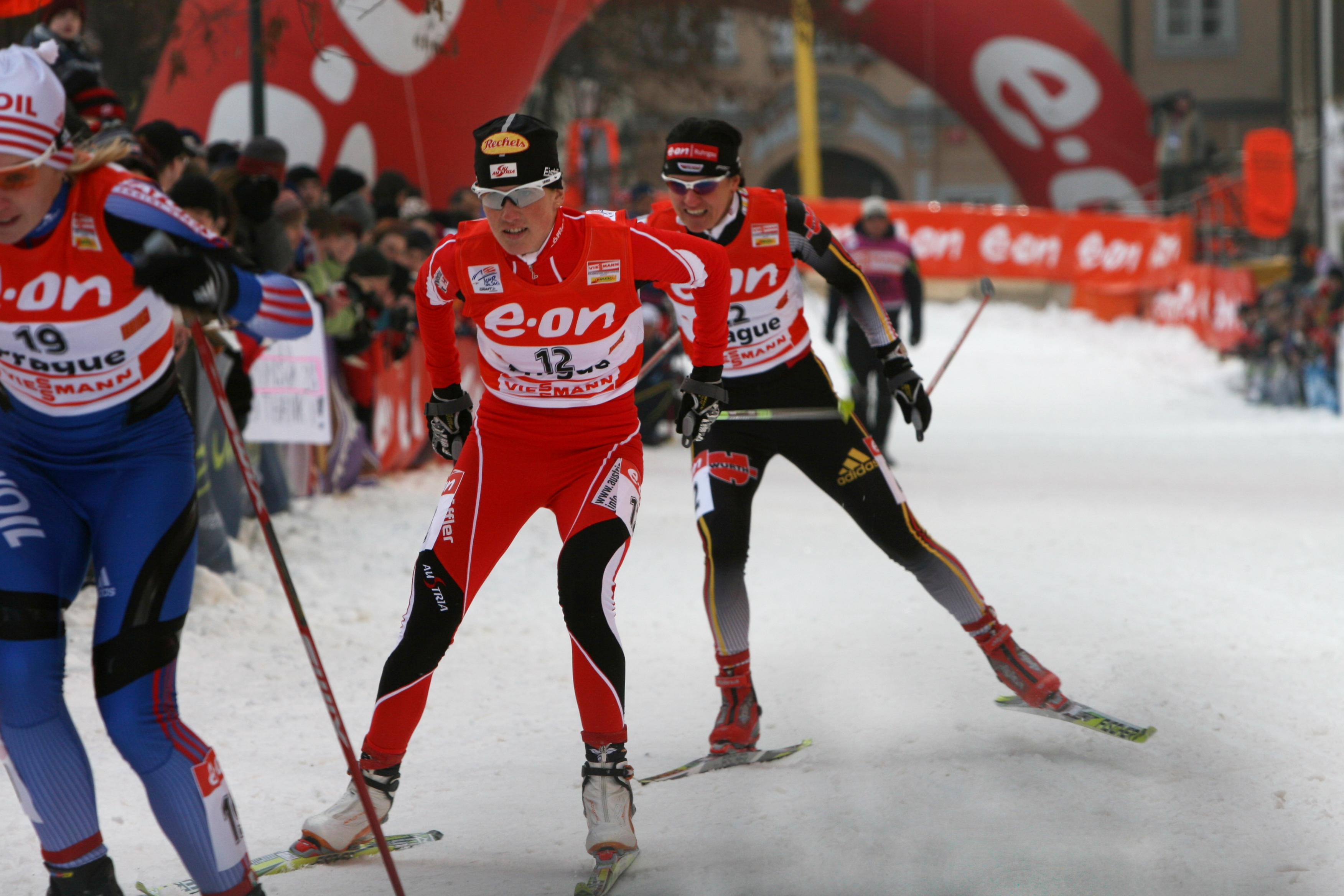 Kateřina Smutná (number 12) at Tour de Ski in Prague